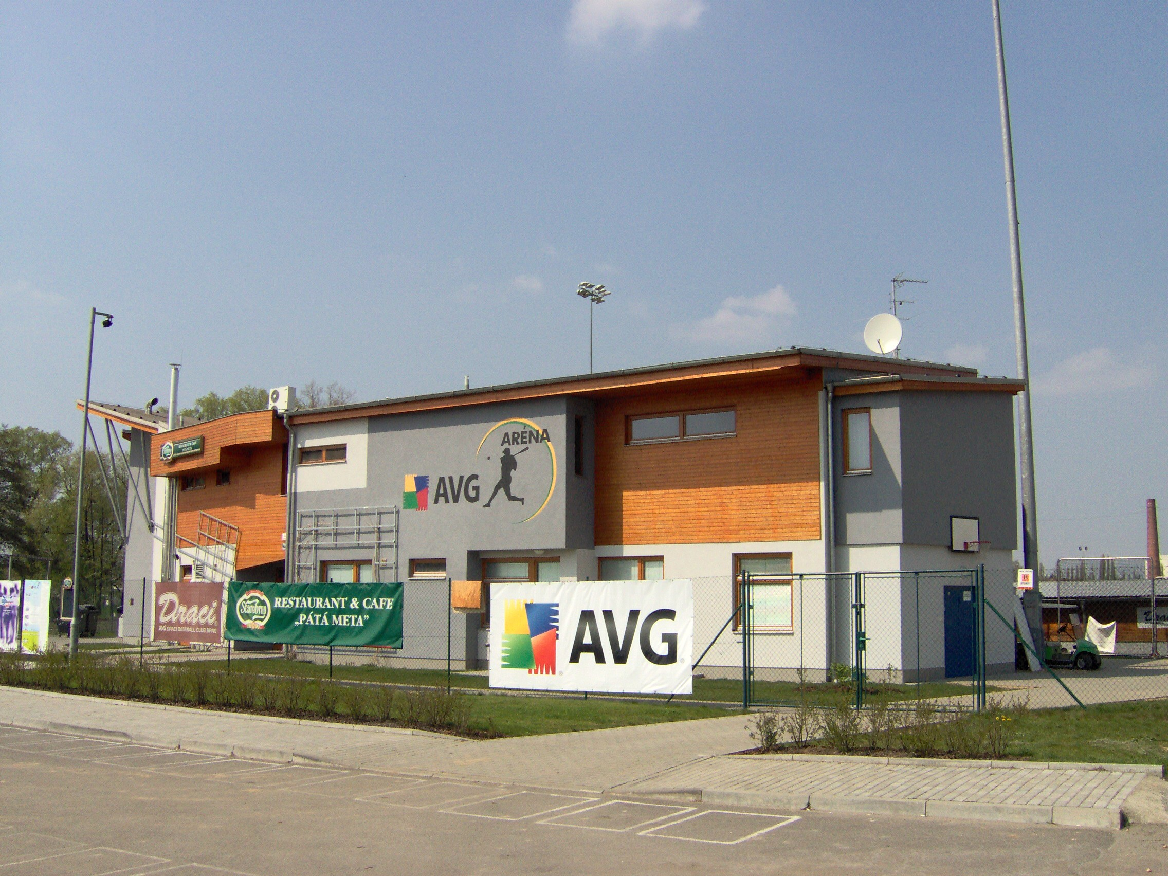 Baseball stadium in Brno, Czech Republic